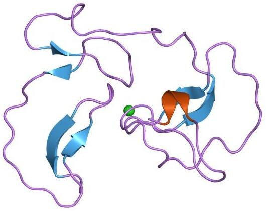 Cartoon representation of the molecular structure of protein registered with 1skz code.